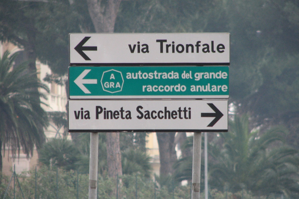 Road sign on the northern-western sector of Rome indicating the direction for several streets and roads including the A90. The latter, also known as Grande Raccordo Anulare, is a road belt encircling Rome connecting all the roads getting in and from the city